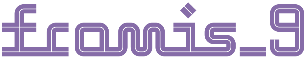 Logo of Fromis_9